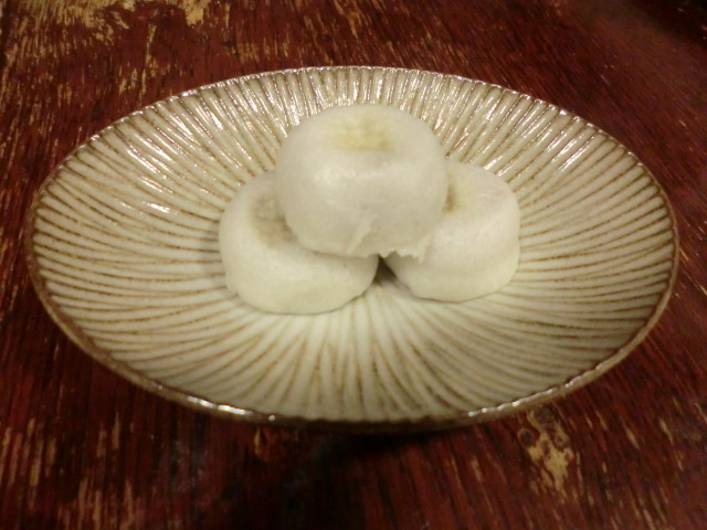 Japanese Manju "Kogiku Manju" famous in Kitakyushu city,Fukuoka prefecture,Japan.